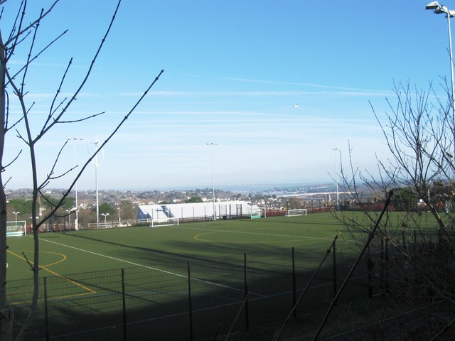 The Astro sports pith at Bideford College.